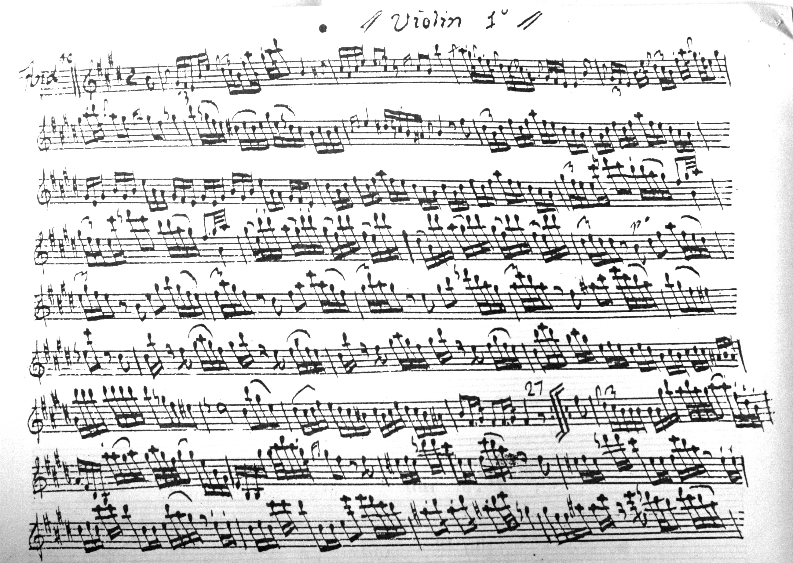 Trio sonata by Salvador Reixac